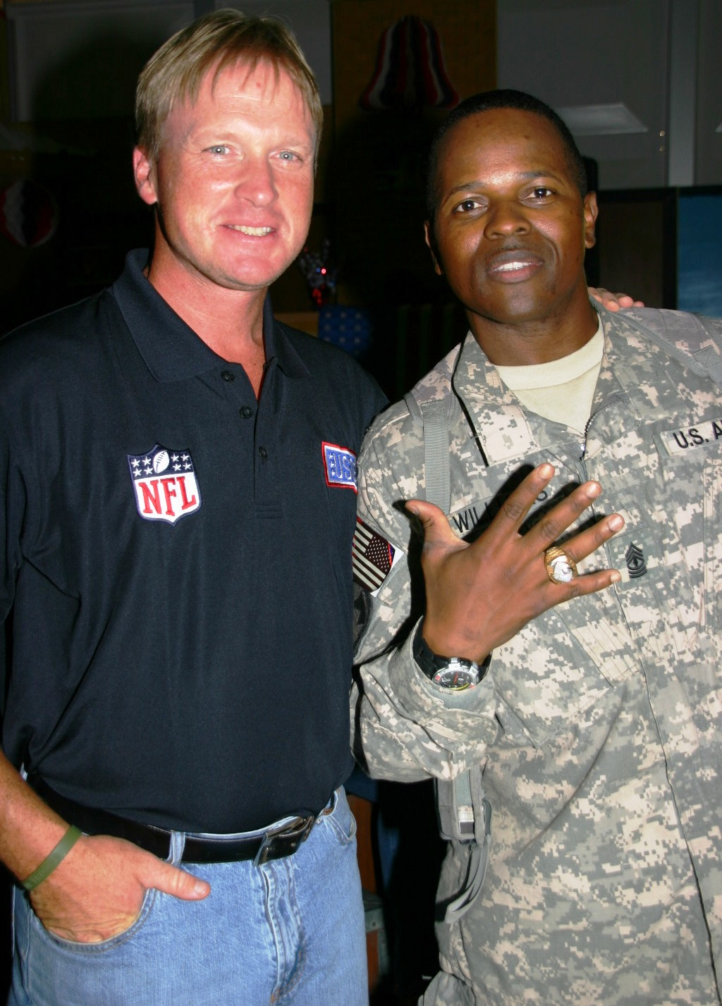 BAGHDAD - First Sgt. Apollo Williams, of Company A, Division Special Troops Battalion, 1st Cavalry Division, shows off the Super Bowl ring of former Oakland Raiders and Tampa Bay Buccaneers head coach Jon Gruden at Camp Liberty here, July 4. Williams, a Los Angeles native, was appreciative of the Independence Day event. "I've been a Raiders fan for over 30 years and meeting one of the Raider's head coaches, Jon Gruden, was great," he said. Gruden was at Camp Liberty visiting U.S. troops as part of the USO-sponsored NFL Coaches Tour.